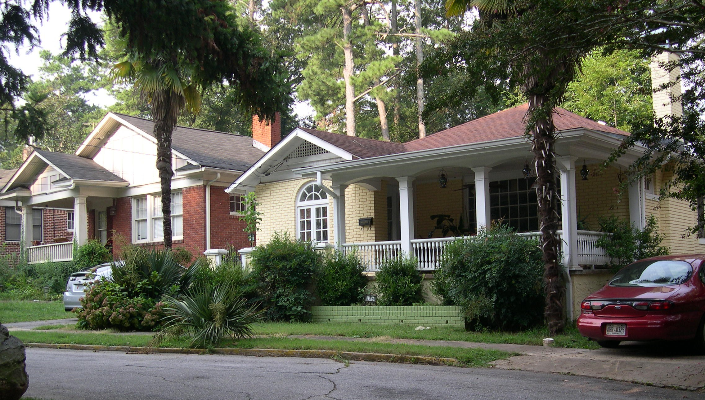 Bungalows in the Ponce de Leon Court Historic District, Decatur, GA